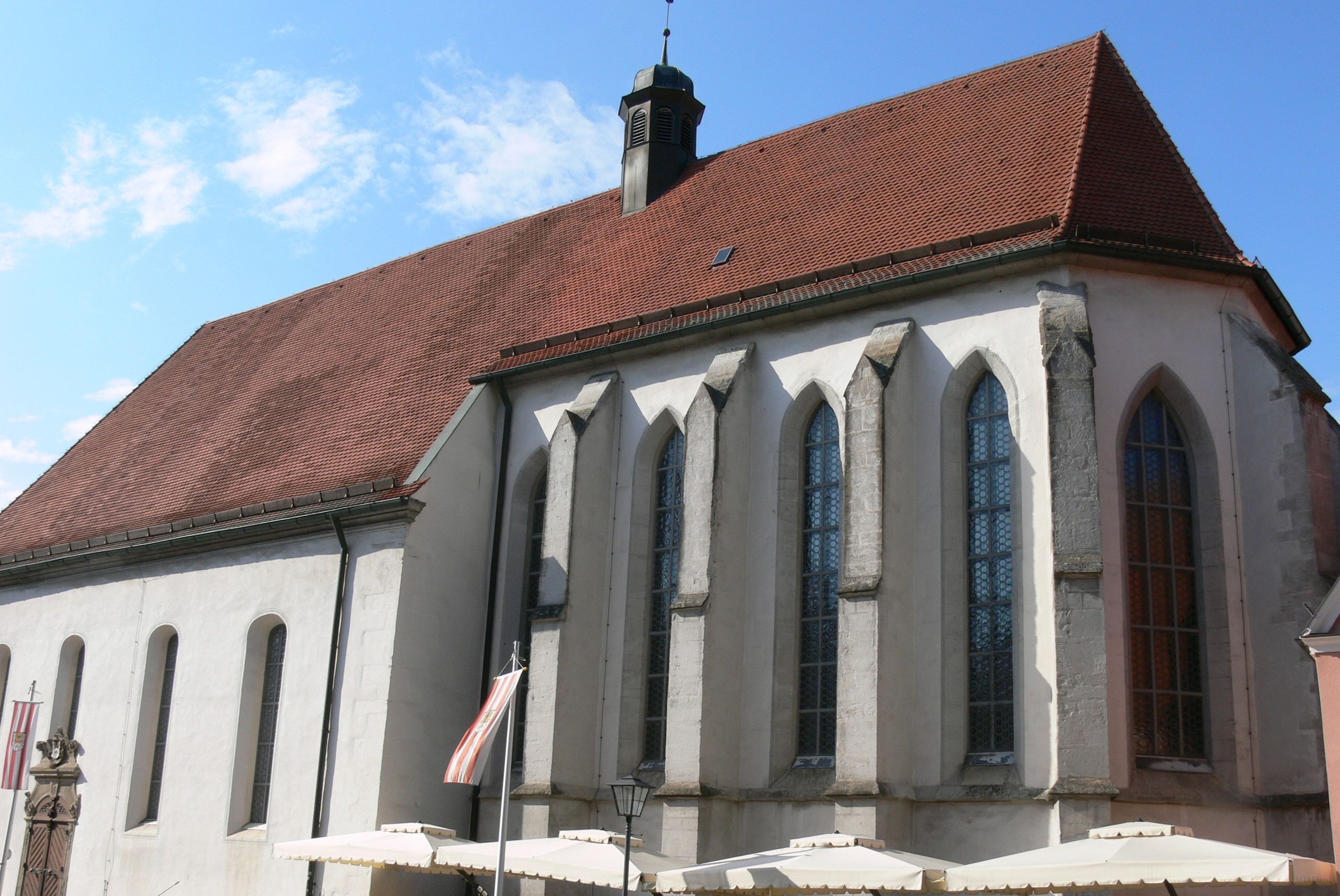 Weißenburg ( Bavaria ). Former Carmelite monastery: Monastery church.